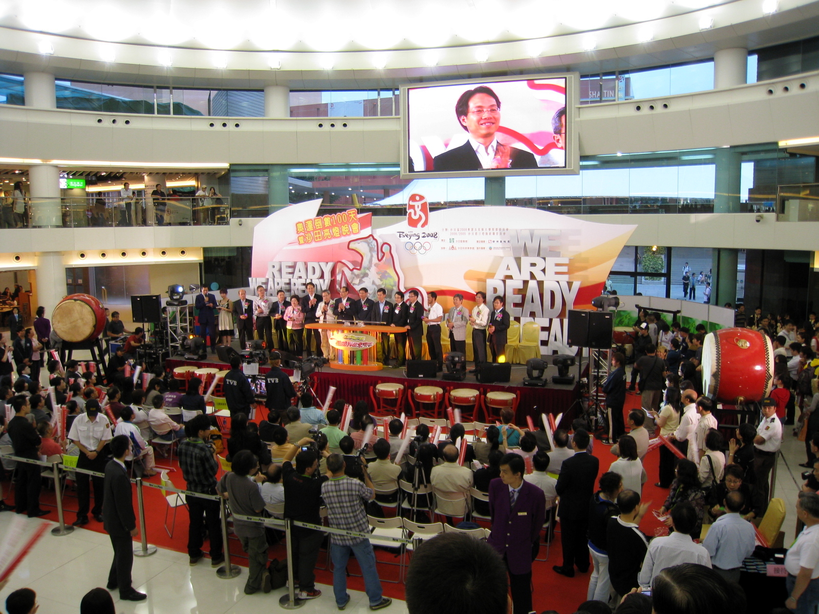 2008 Summer Olympics Countdown 100 Days Ceremony in New Town Plaza, Hong Kong